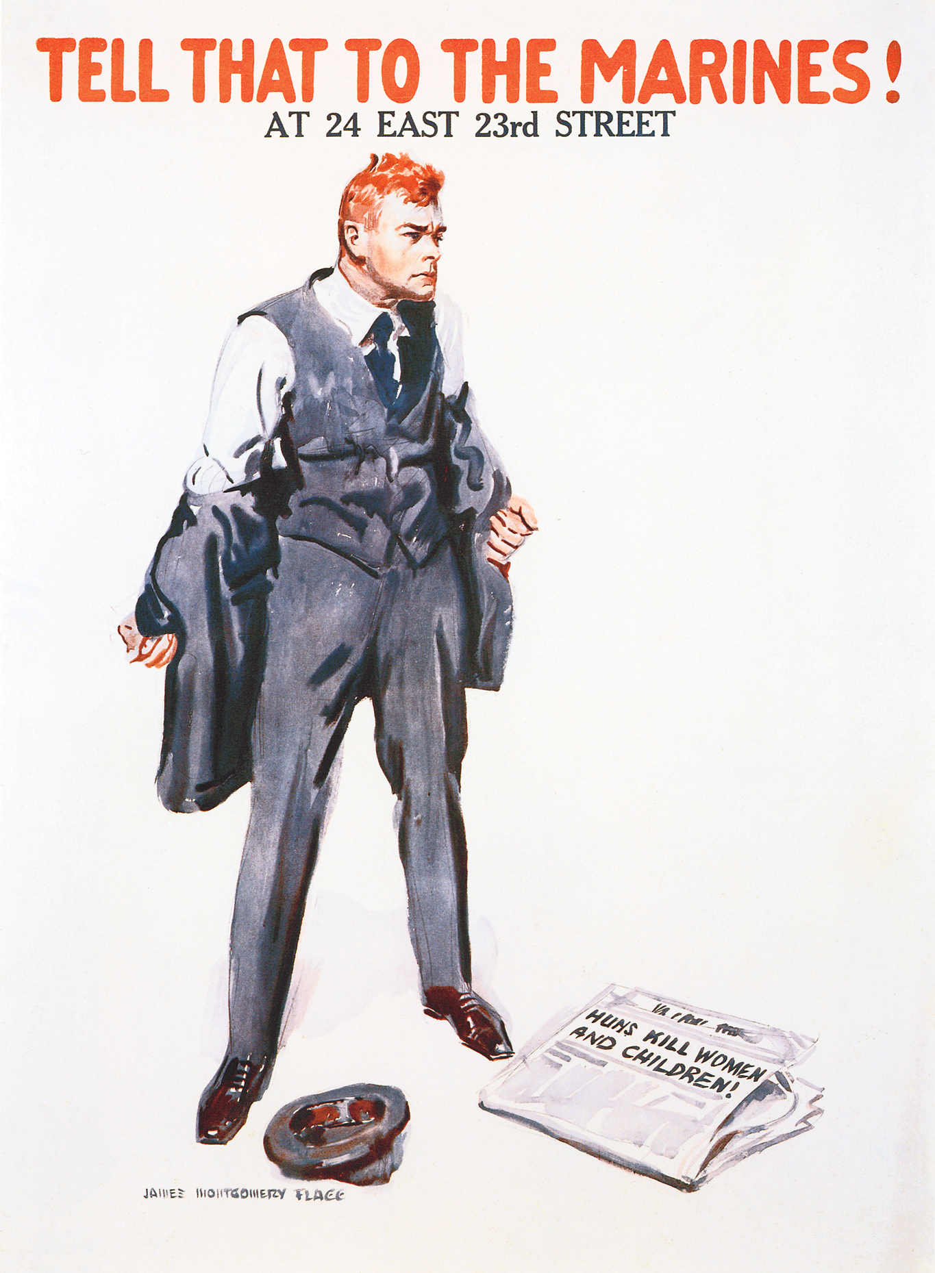 "Tell That To The Marines". 1917 US recruitment poster for World War I. Shows an angry man taking off his coat as if ready to brawl; at his feet is a newspaper with the headline "HUNS KILL WOMEN AND CHILDREN!". "Huns" at the time was a common epithet for the German WWI forces.